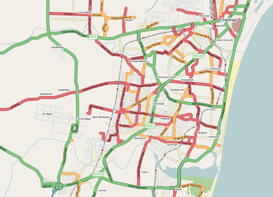 Map of Anna Salai. This map may be incomplete, and may contain errors. Don't rely solely on it for navigation.